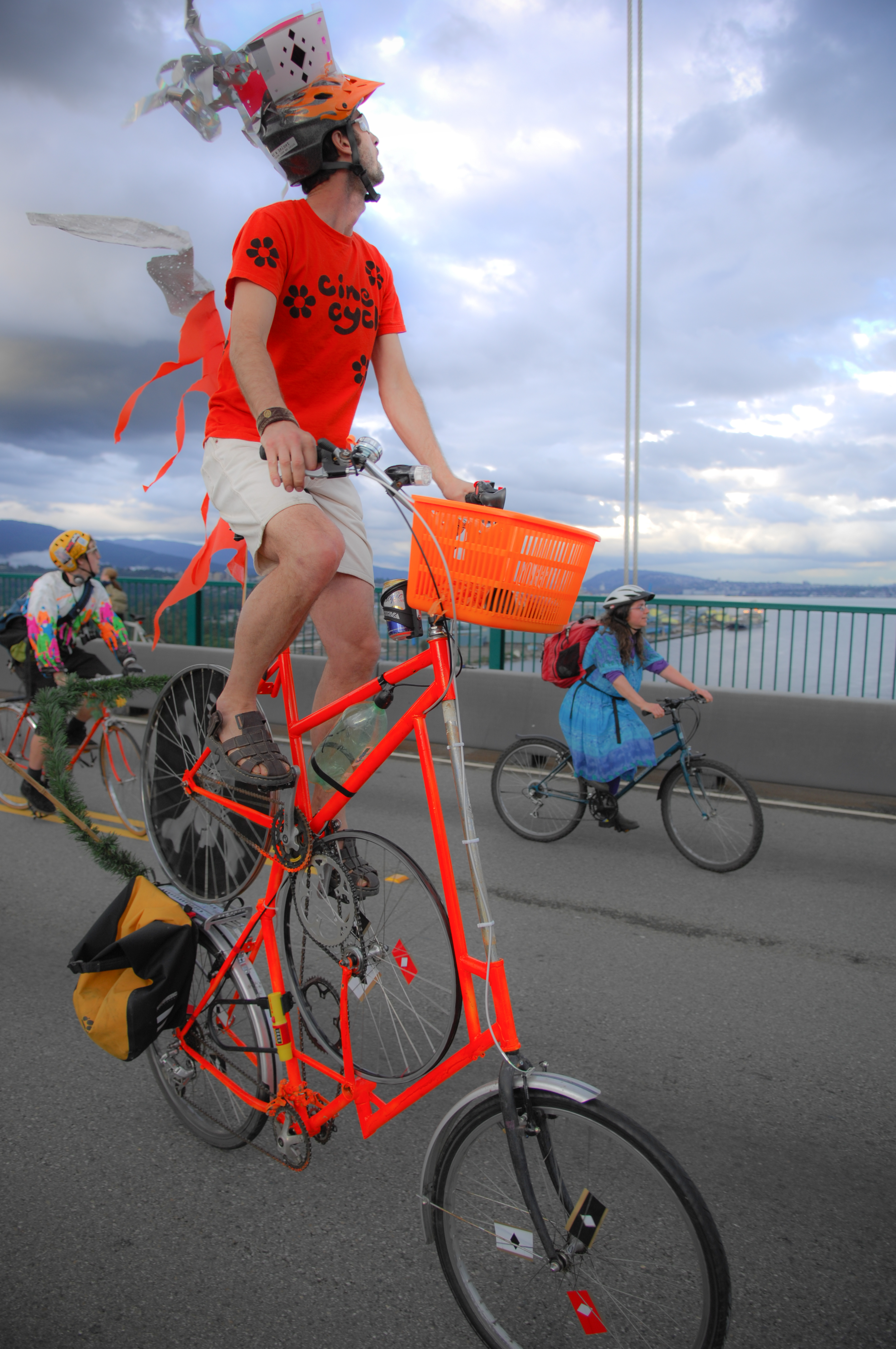 On the last Friday of every month, bicyclists gather for Critical Mass: to celebrate cycling and to assert cyclists' right to the road. The June Critical Mass in Vancouver, BC, Canada is normally the largest ride, pulling thousands of riders and temporarily shutting down vehicular traffic in large swathes of the city. The June 2007 ride shutdown Lion's Gate bridge for 30 minutes and the Stanley Park Causeway that leads to it for 60 minutes.